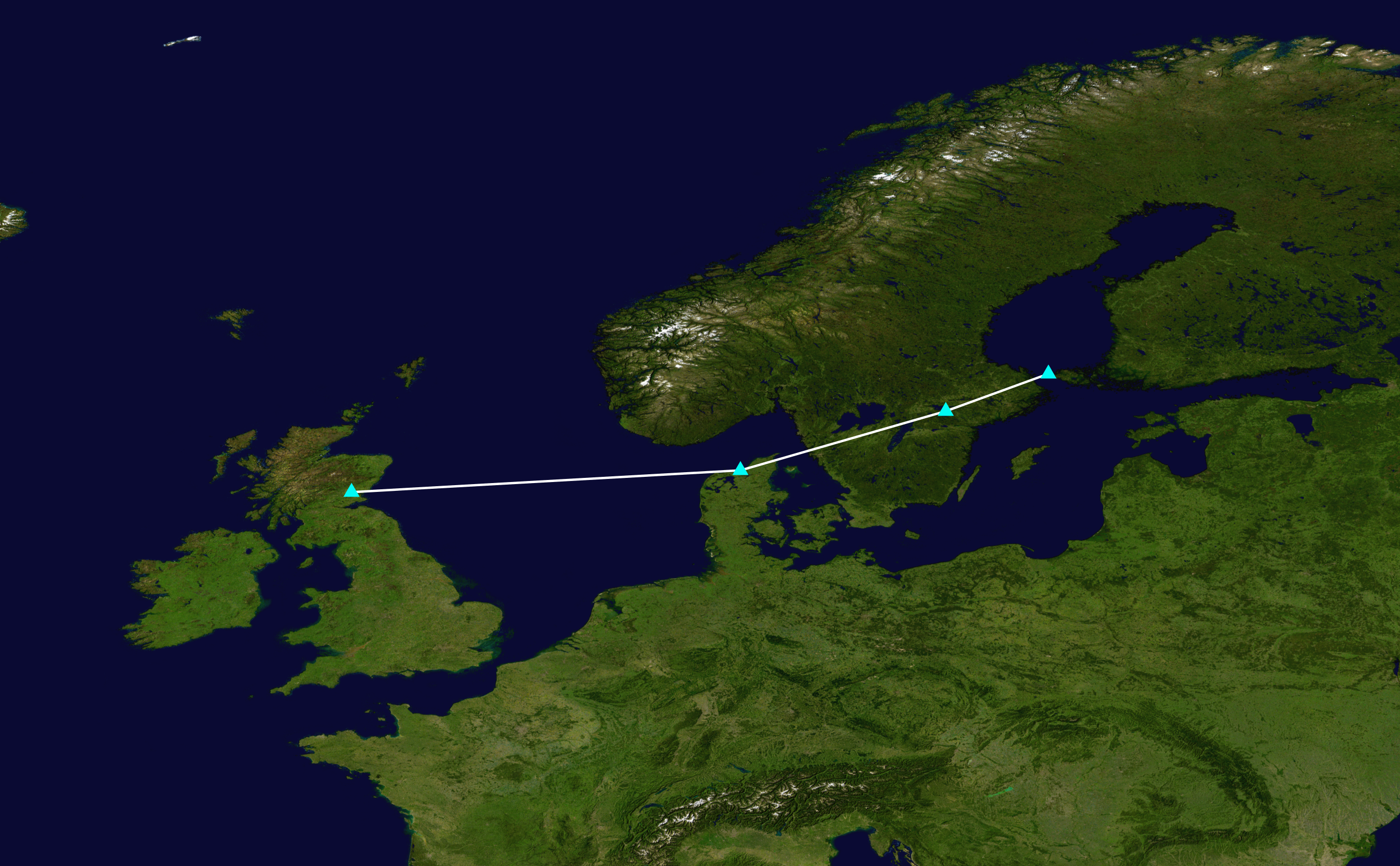 Track map of Storm Clodagh of the European windstorms of 2015. The points show the location of the storm at 6-hour intervals. The colour represents the storm's maximum sustained wind speeds as classified in the Beaufort wind scale (see below). Beaufort scale 1-7≤38 mph≤62 km/h 8-11 (gale-force)39–73 mph63–118 km/h 12 (hurricane force)≥74 mph≥119 km/h Unknown